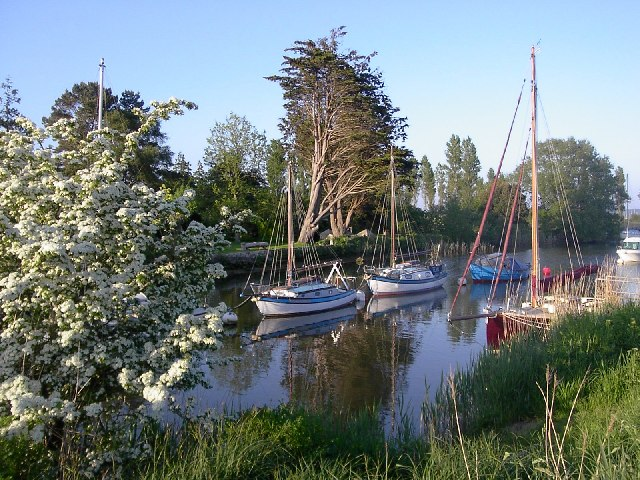 River Frome. Looking East from Wareham